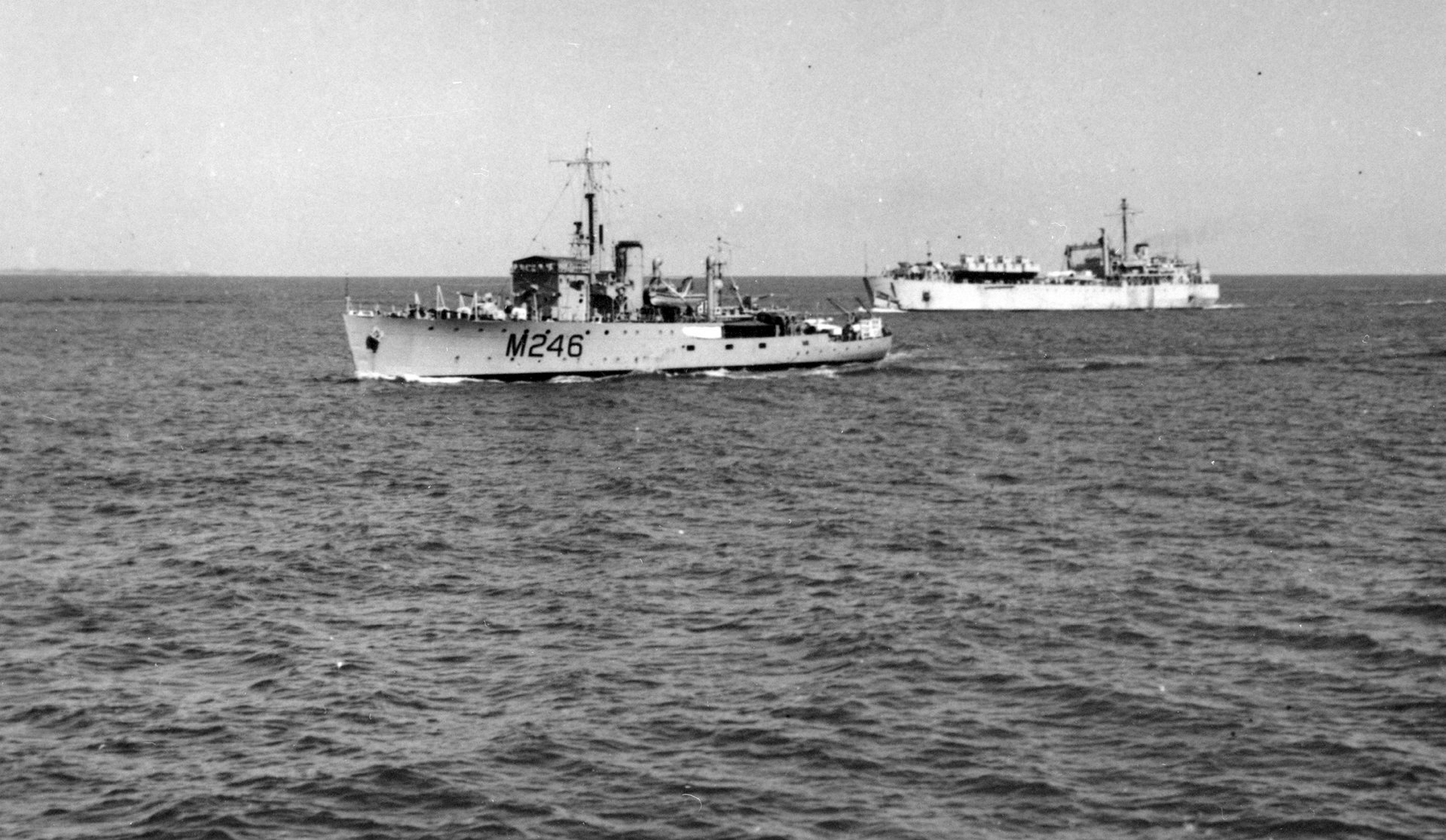 April-May 1956 corvette HMAS FREMANTLE (I) and LST HMS NARVIK, bound for Monte Bello A-test - RAN.Imagery Scanned from Navy Historic Archive. RAN, Navy Heritage Collection image NO. 01023.